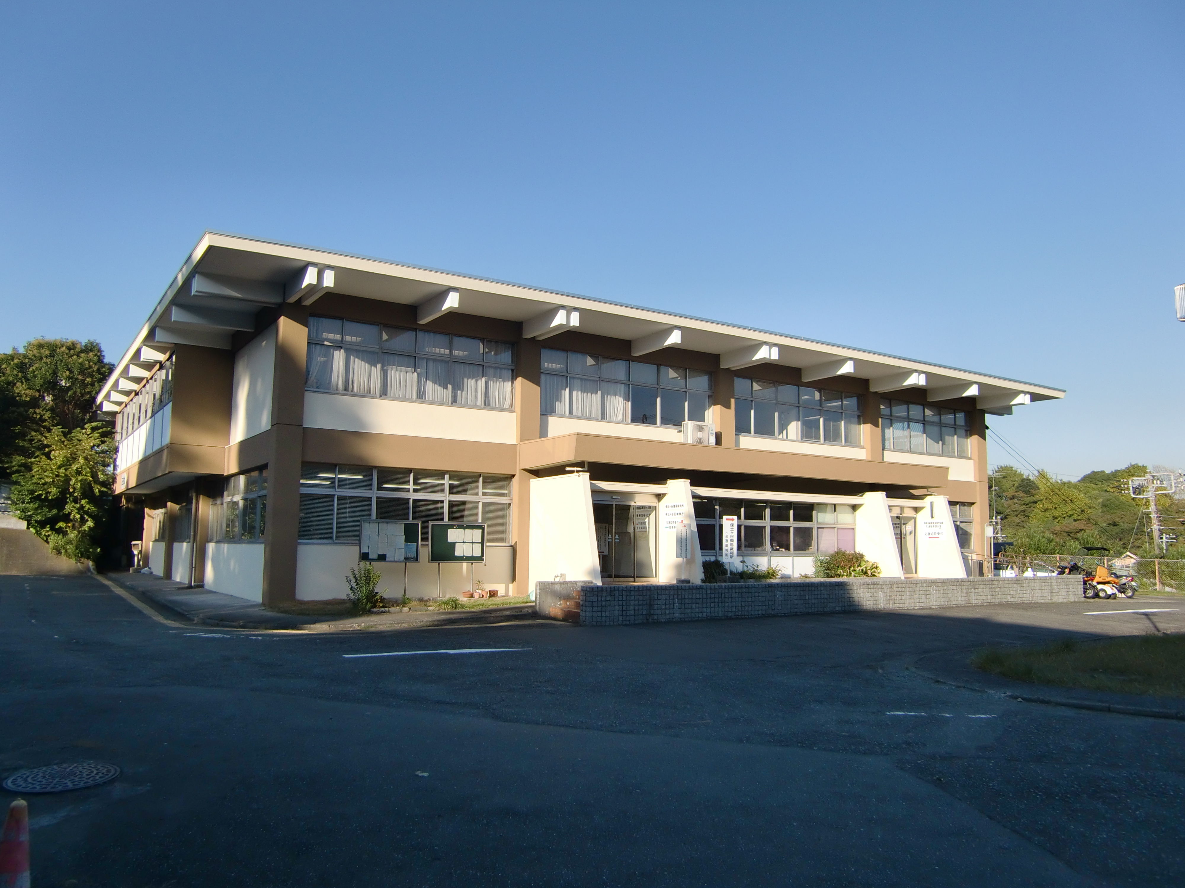 Hodogaya Summary Court.